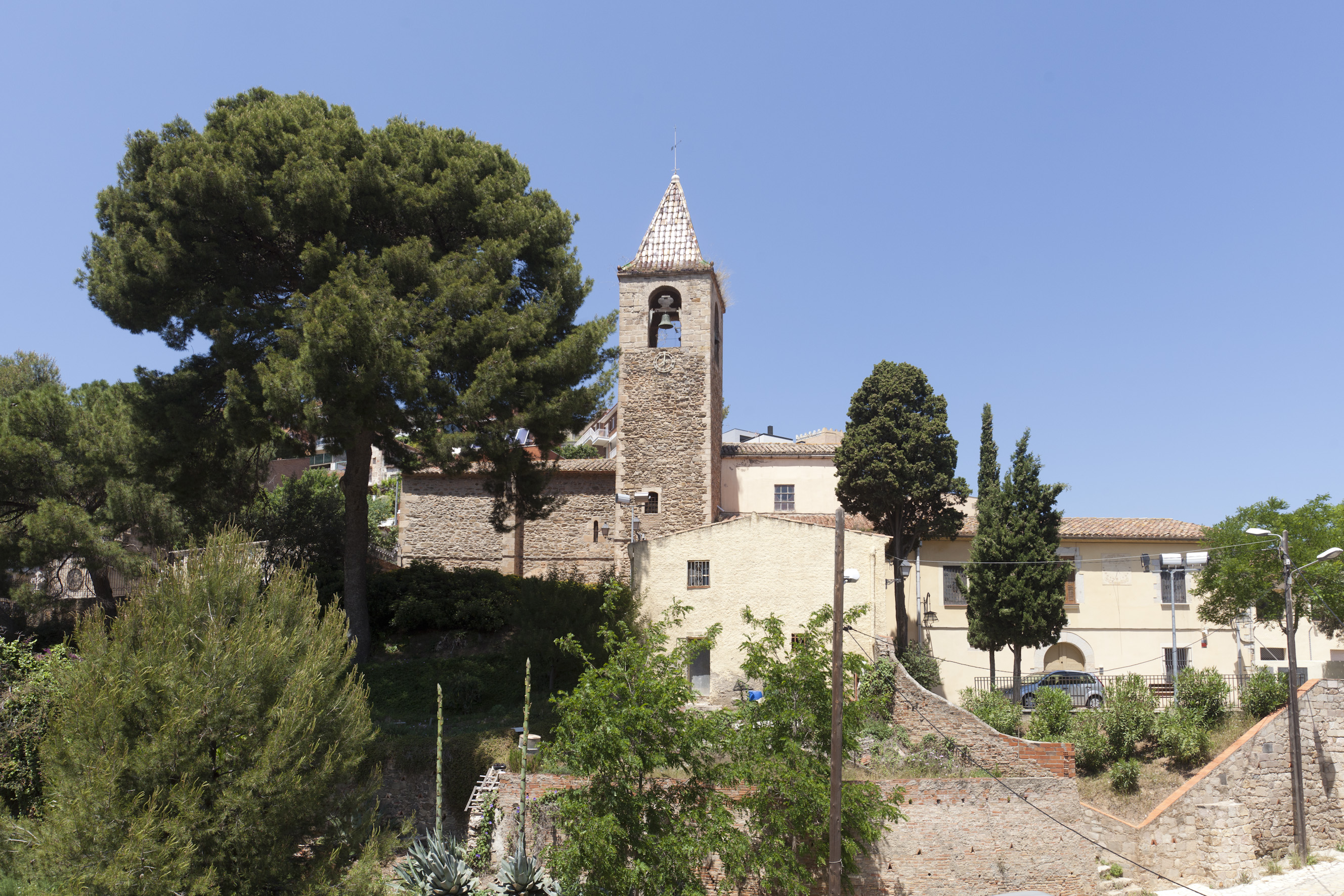 Historical Routes at the Horta-Guinardó District Administration in Barcelona This image was provided to Wikimedia Commons by the Horta-Guinardó District Administration in Barcelona as part of an ongoing cooperative project with Amical Viquipèdia. English | +/−